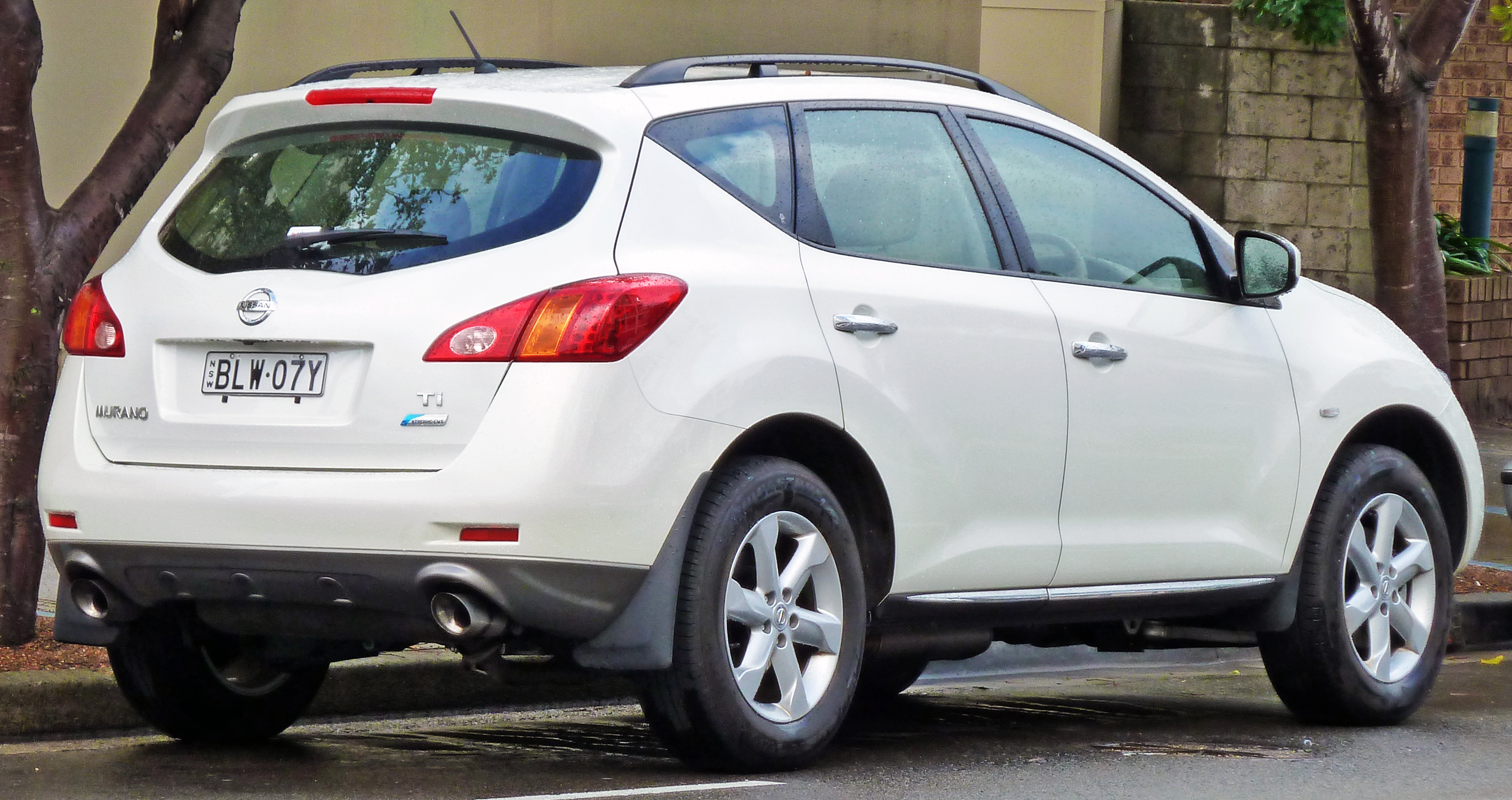 2009 Nissan Murano (Z51) Ti. Photographed in Cronulla, New South Wales, Australia.